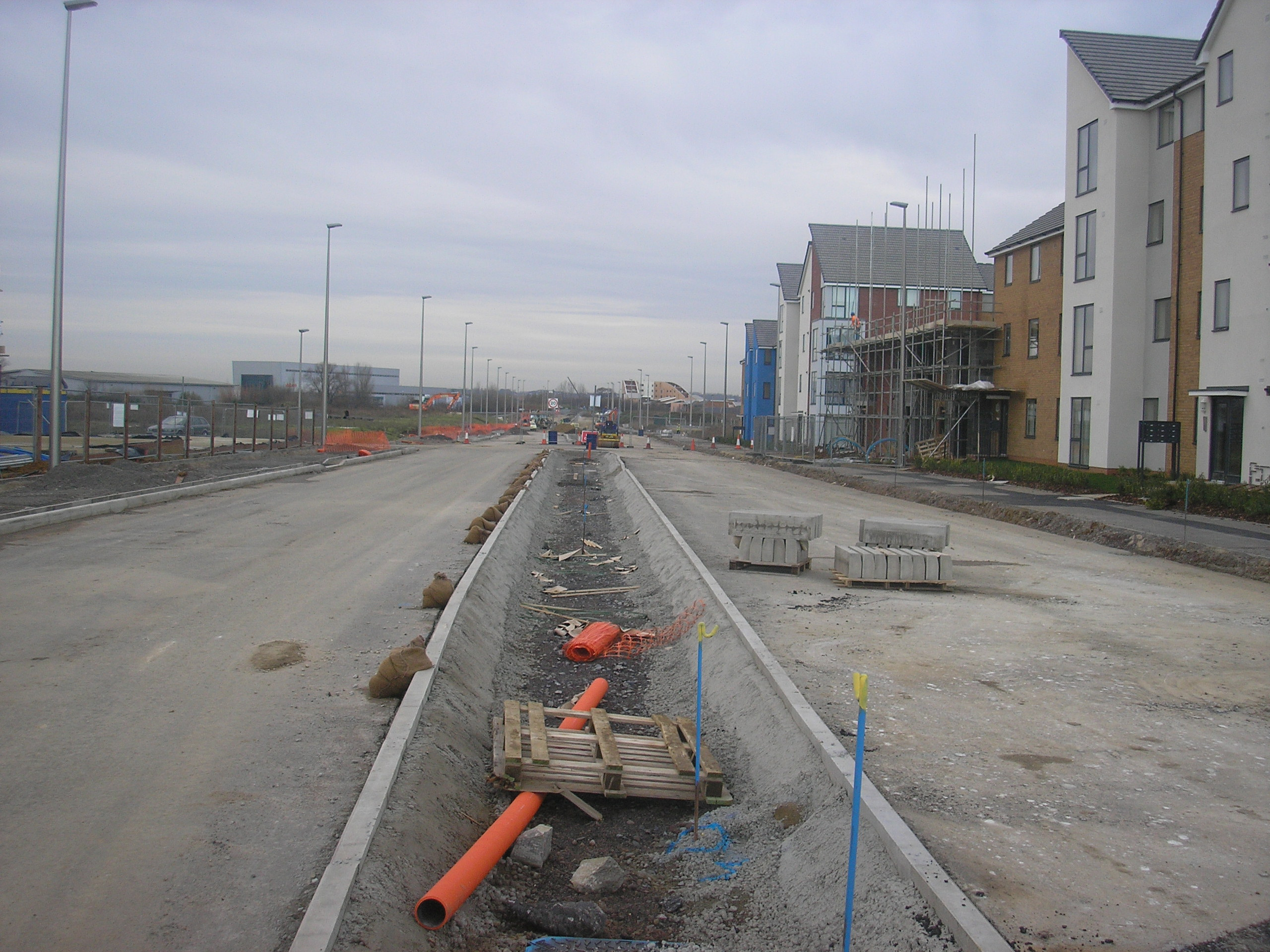 A view along Countess Way, an extension of H7 Chaffron Way, a new 'City Street' under construction in the Broughton Gate region of Milton Keynes.